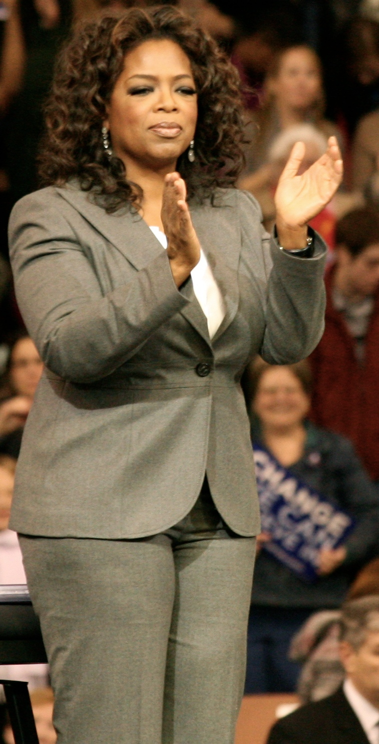 Oprah Winfrey when she was with Barack Obama and Michelle Obama at a rally